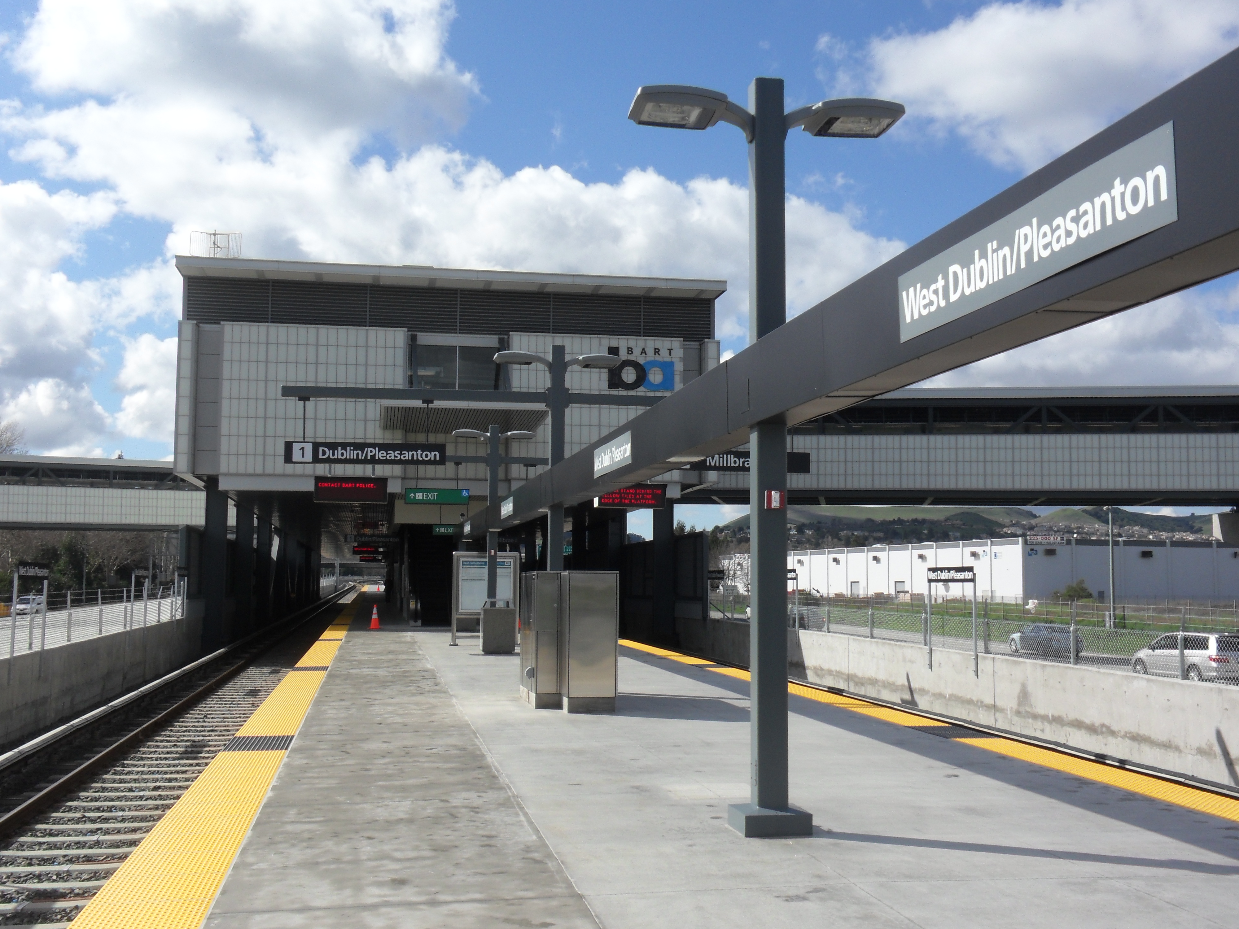 West Dublin/Pleasanton station on the first day of service in February 2011